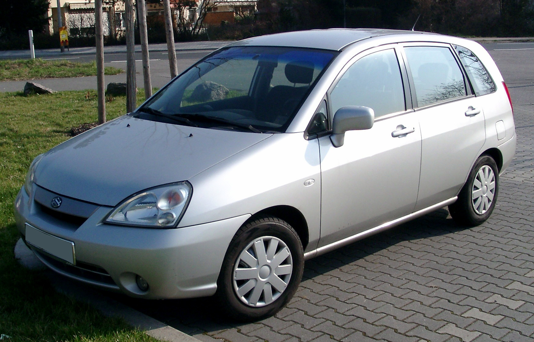 Suzuki Liana, the german version of Suzuki Aerio